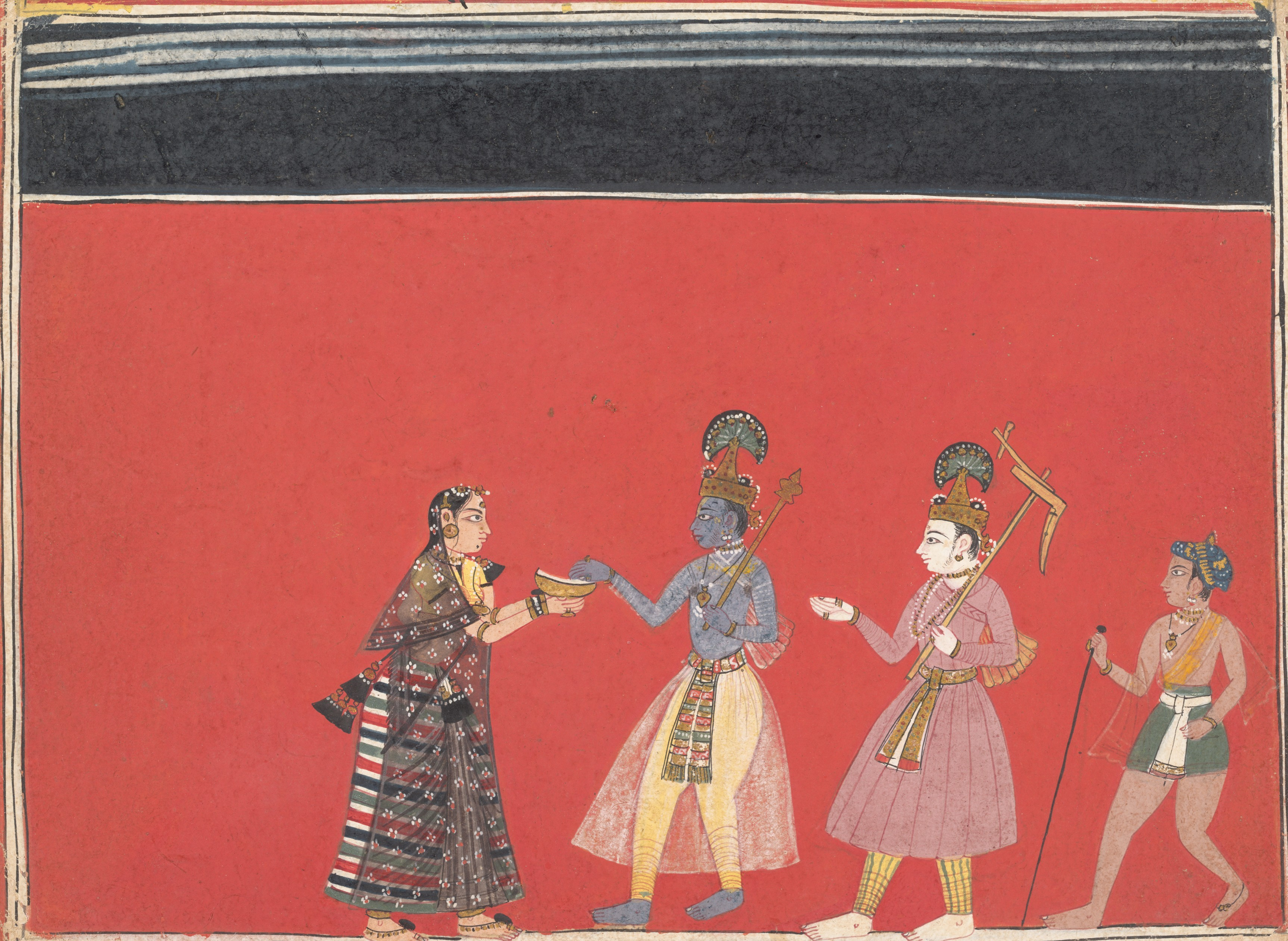 While traveling, Krishna encounters the hunchbacked woman Trivakra and notices the wonderful ointments she made for the evil king Kamsa. Overcome by his presence, Trivakra offers the ointments to Krishna, who straightens her crooked back and transforms her into a perfectly proportioned, beautiful woman. The story illustrates Krishna’s miraculous nature and Trivakra’s devotion, which is ultimately manifest as her passionate desire for god. Drawing on earlier painting styles of western India, the Malwa artist reduced the narrative to its essentials, presenting only the brightly lit protagonists against an intense red ground, banded by a darkened skyline.